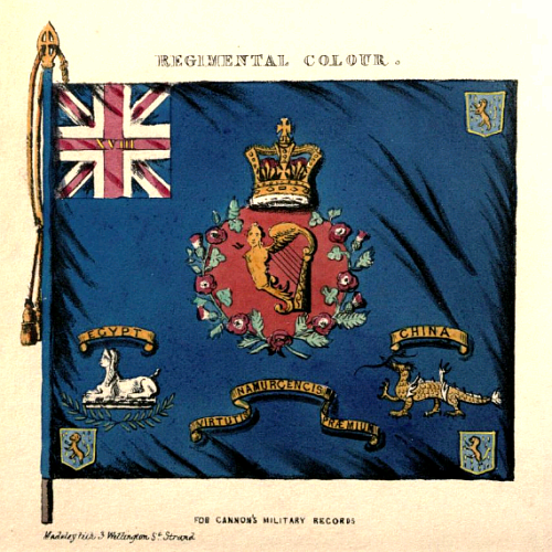 Regimental Colour of the 18th (The Royal Irish) Regiment of Foot, c. 1848. Source